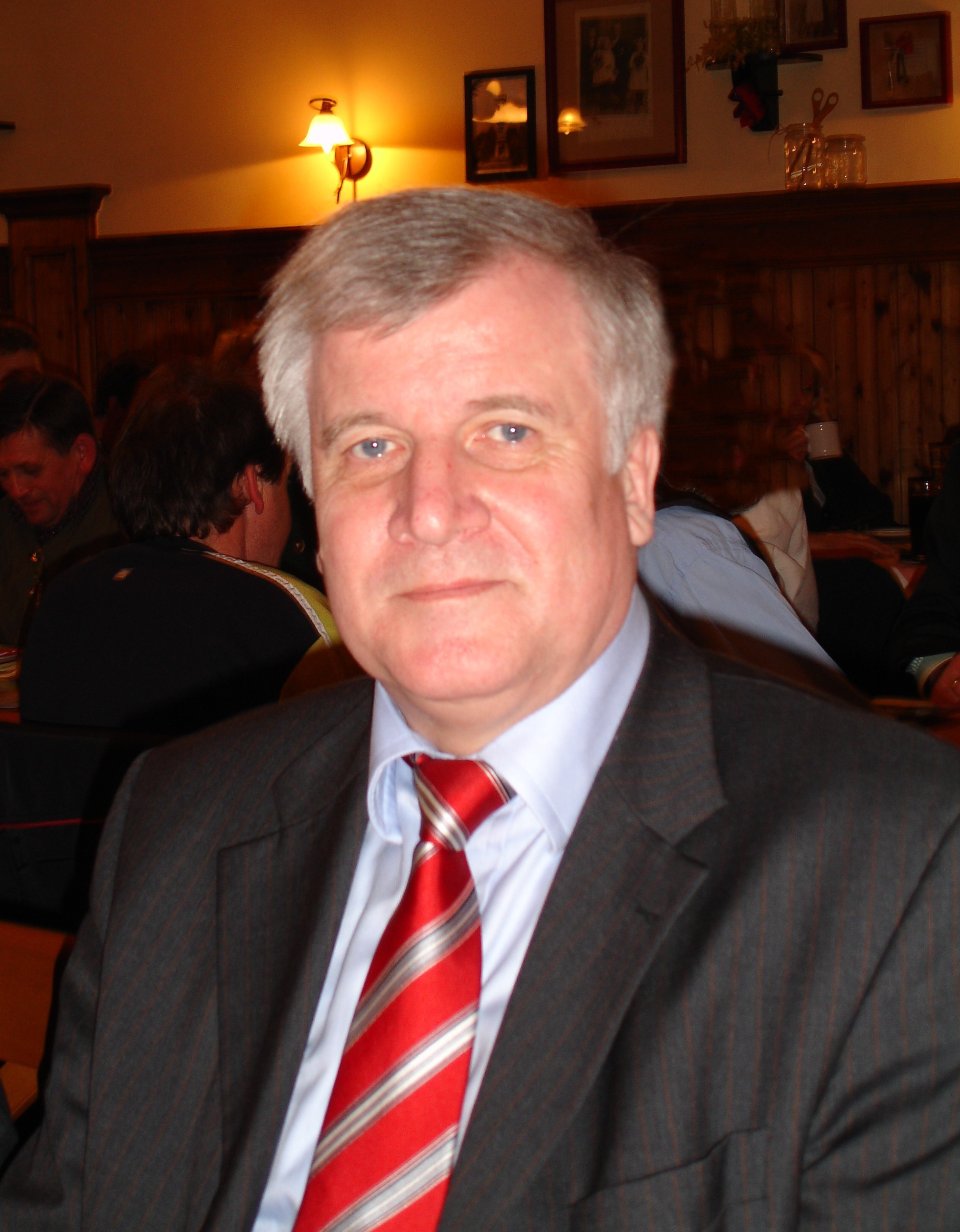 Horst Seehofer, (former) German Federal Minister for Food, Agriculture and Customer Protection in Ebersberg